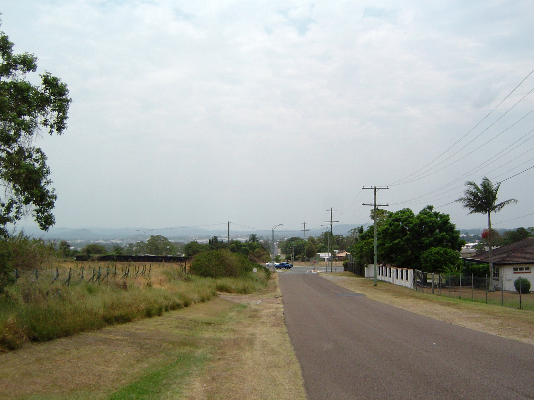 Photo of Orchard Road, Richlands, Brisbane, Queensland, Australia looking northwards.